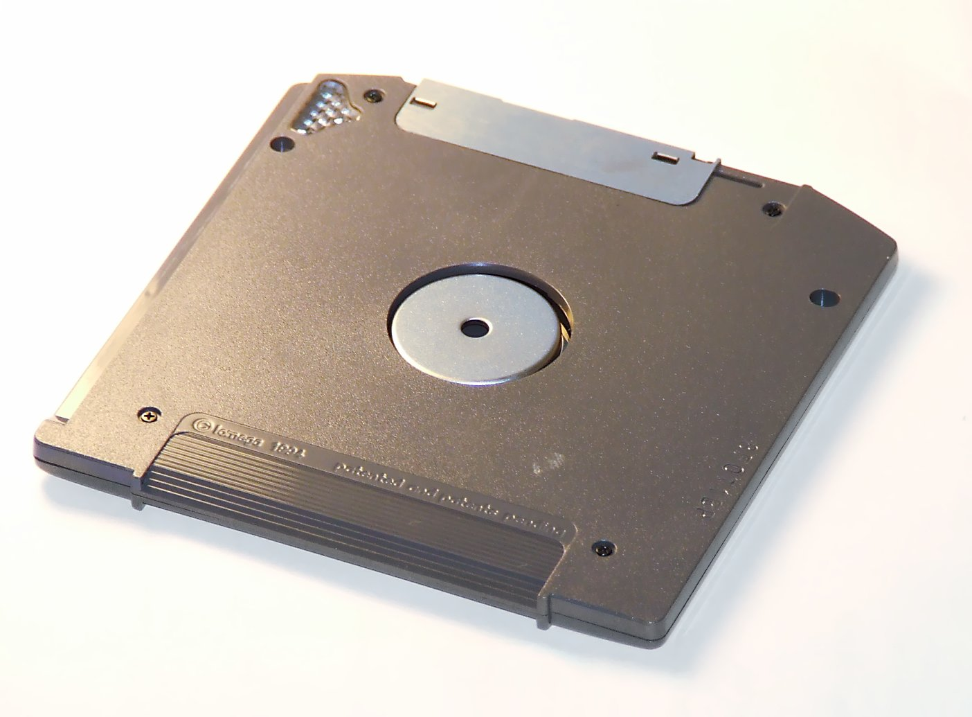 The underside of a Zip disc